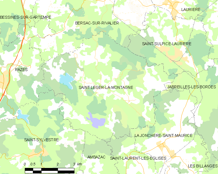 Map of French municipality Saint-Léger-la-Montagne